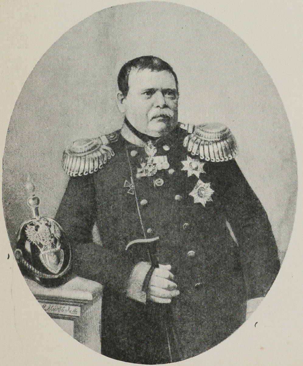 Count Mikhail N. Muravyov-Vilensky